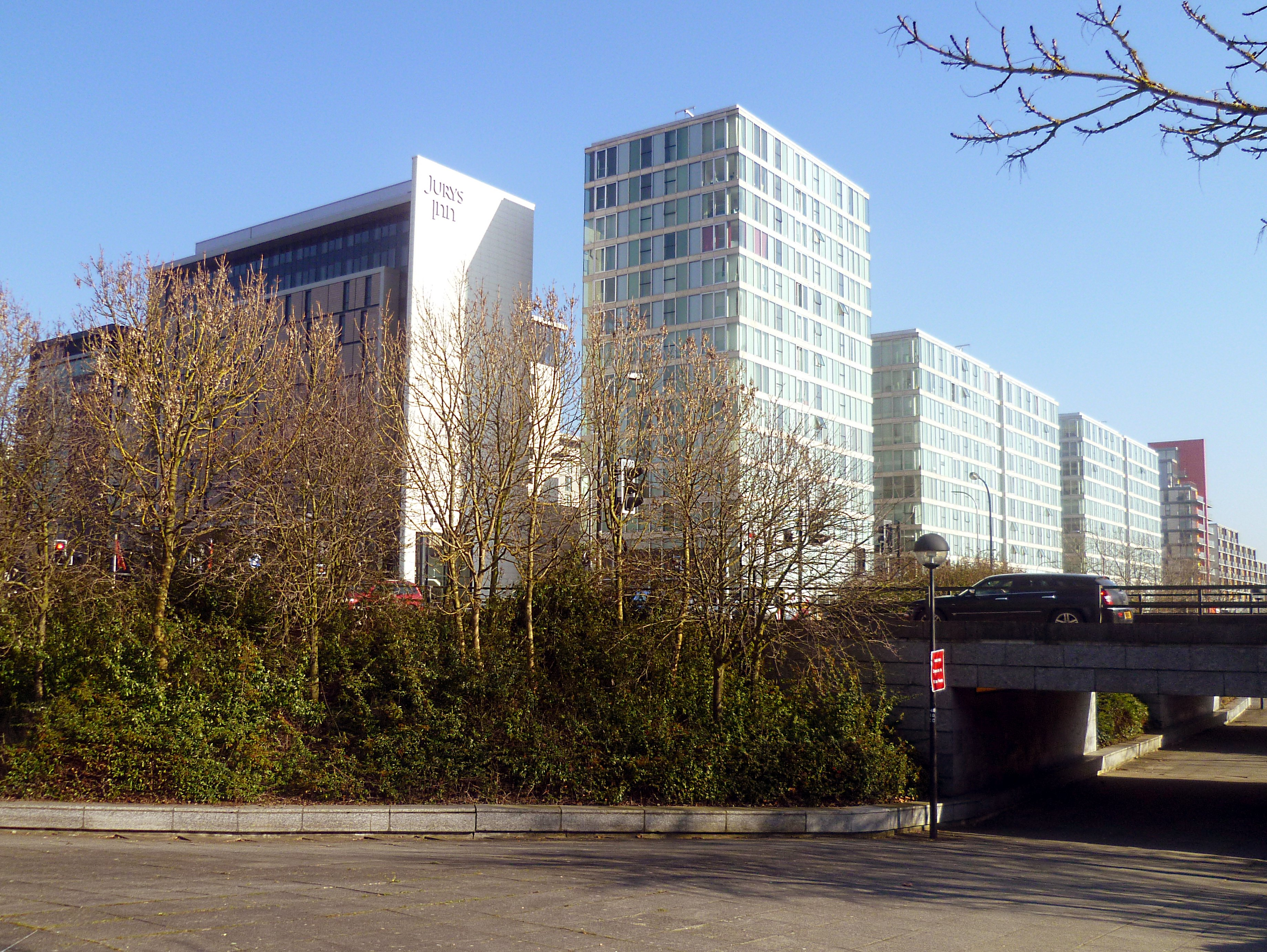 The Hub:MK, a complex of towers in Central Milton Keynes including two hotels, apartments and flats, shops and the Milton Keynes World Trade Centre.